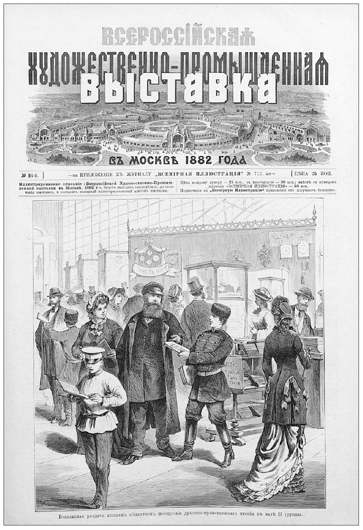 Appendix to the journal "World illustration". Signature under the picture on the cover: Free distribution of books "The society for the encouragement of spiritual-moral reading" in the hall of group II